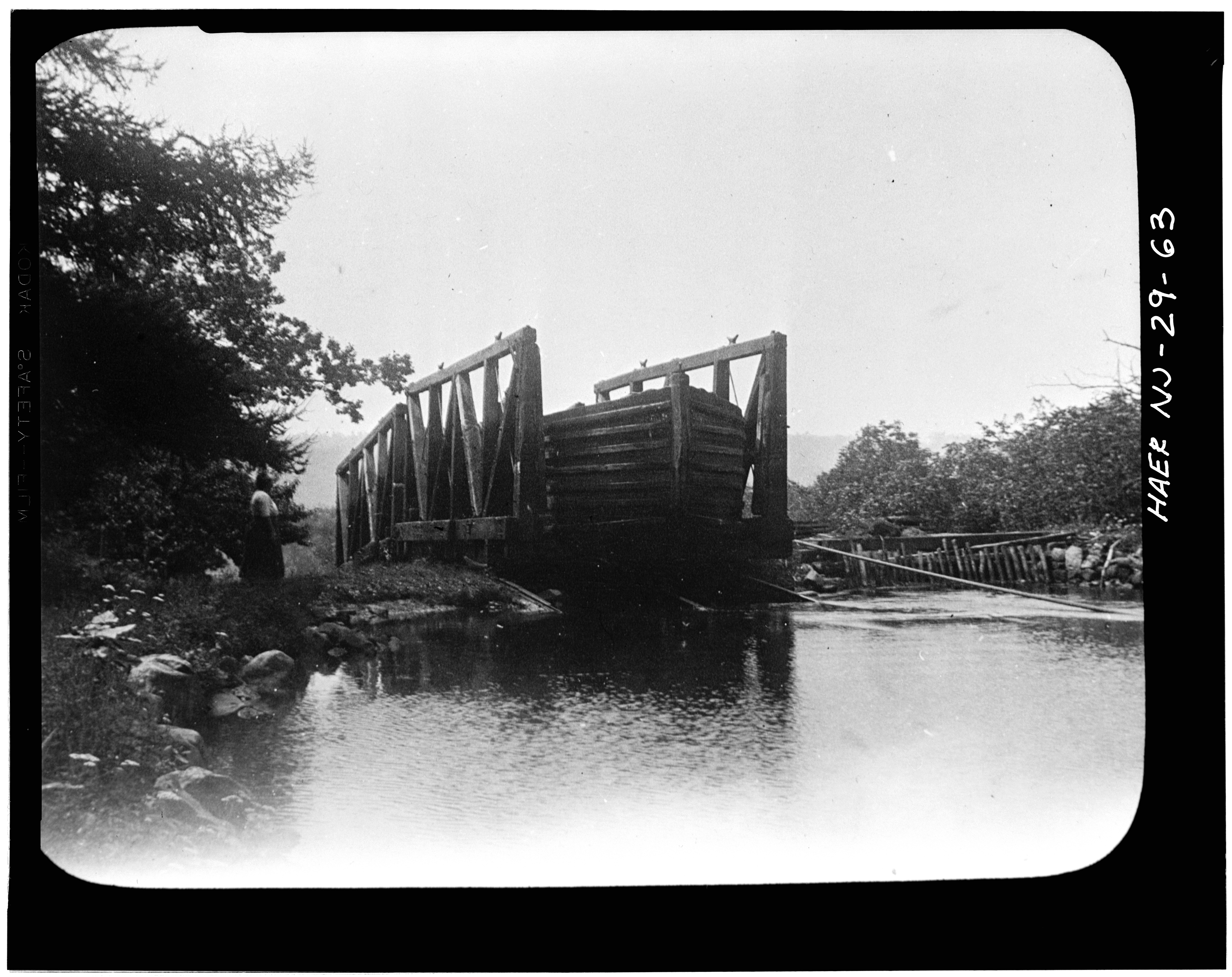 Boat coming out of cradle of inclined plane on Morris Canal. Unfortunately, it isn't documented which inclined plane HABS says: 63. CANAL BOAT IN CRADLE AT TOP OF PLANE. TO PASS OVER THE SUMMIT (THE HUMP OF LAND AT THE TOP OF PLANE TO HOLD BACK THE WATER AT THAT LEVEL), THE BOATS HAVE SEEN HINGED AND TWO CRADLES ARE USED TO CARRY THE BOAT UP THE PLANE. - Morris Canal, Phillipsburg, Warren County, NJ